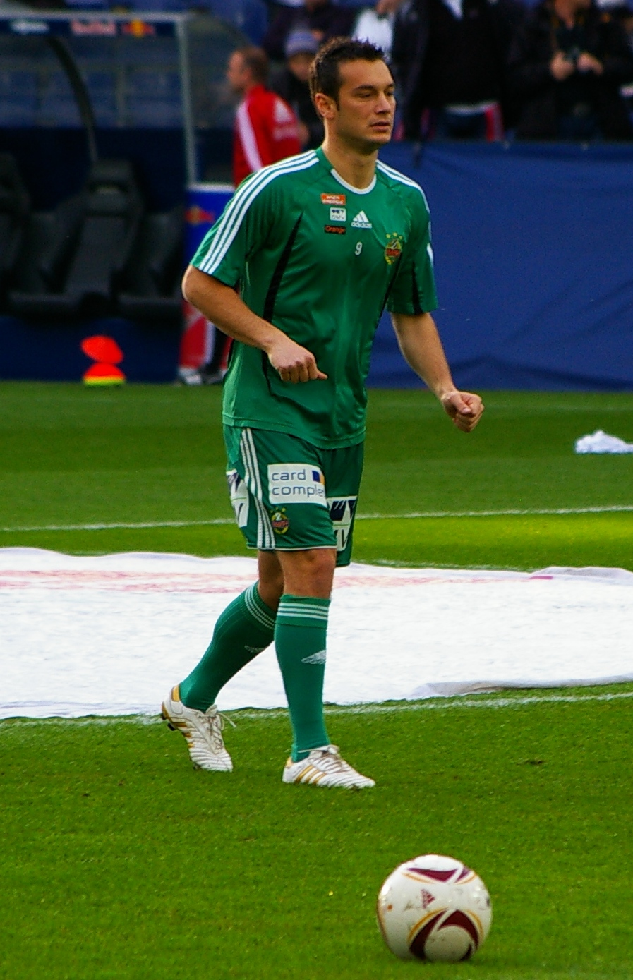 striker SK rapid Wien